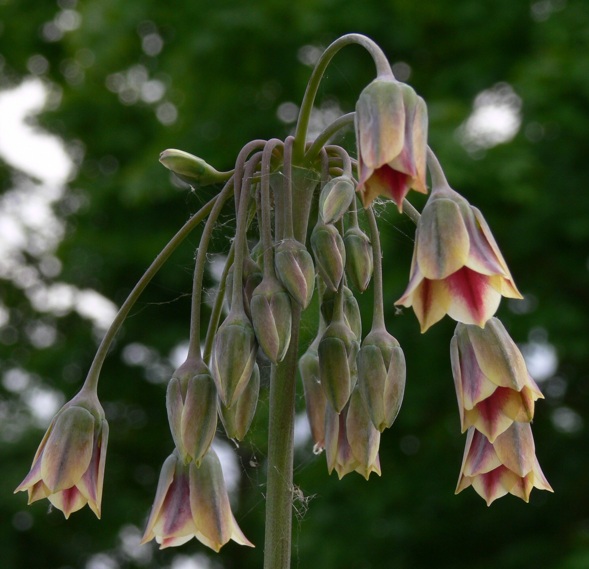 Sicilian honey garlic